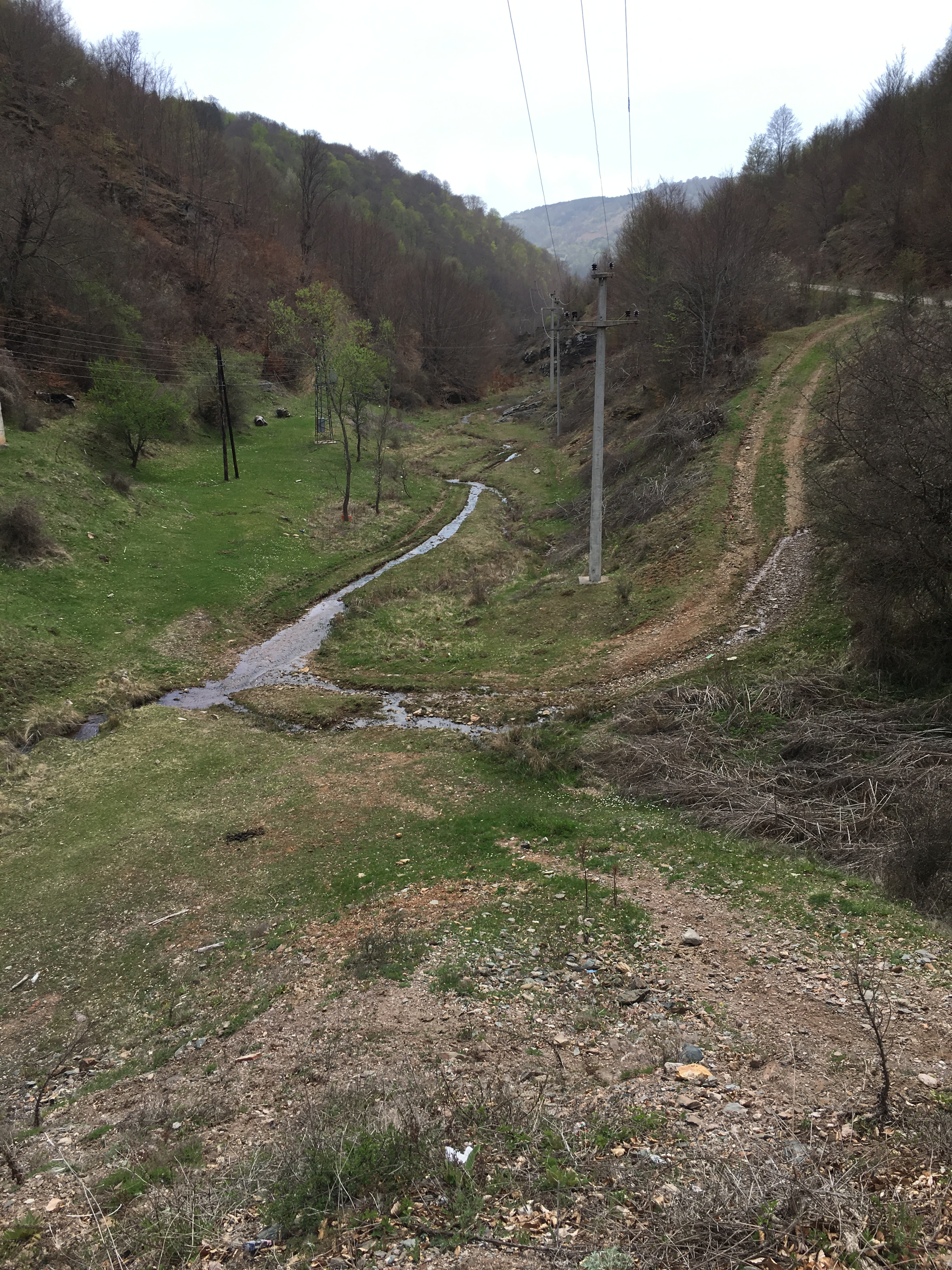 The flow of Krstovska River through the Prisoj mahala of the village of Krstov Dol